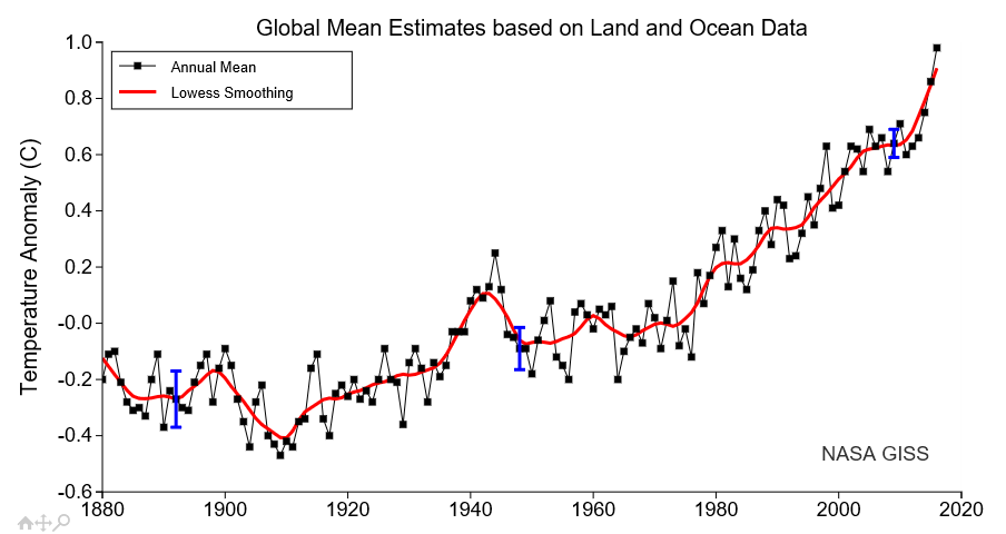 Graph of global annual mean surface air temperature change